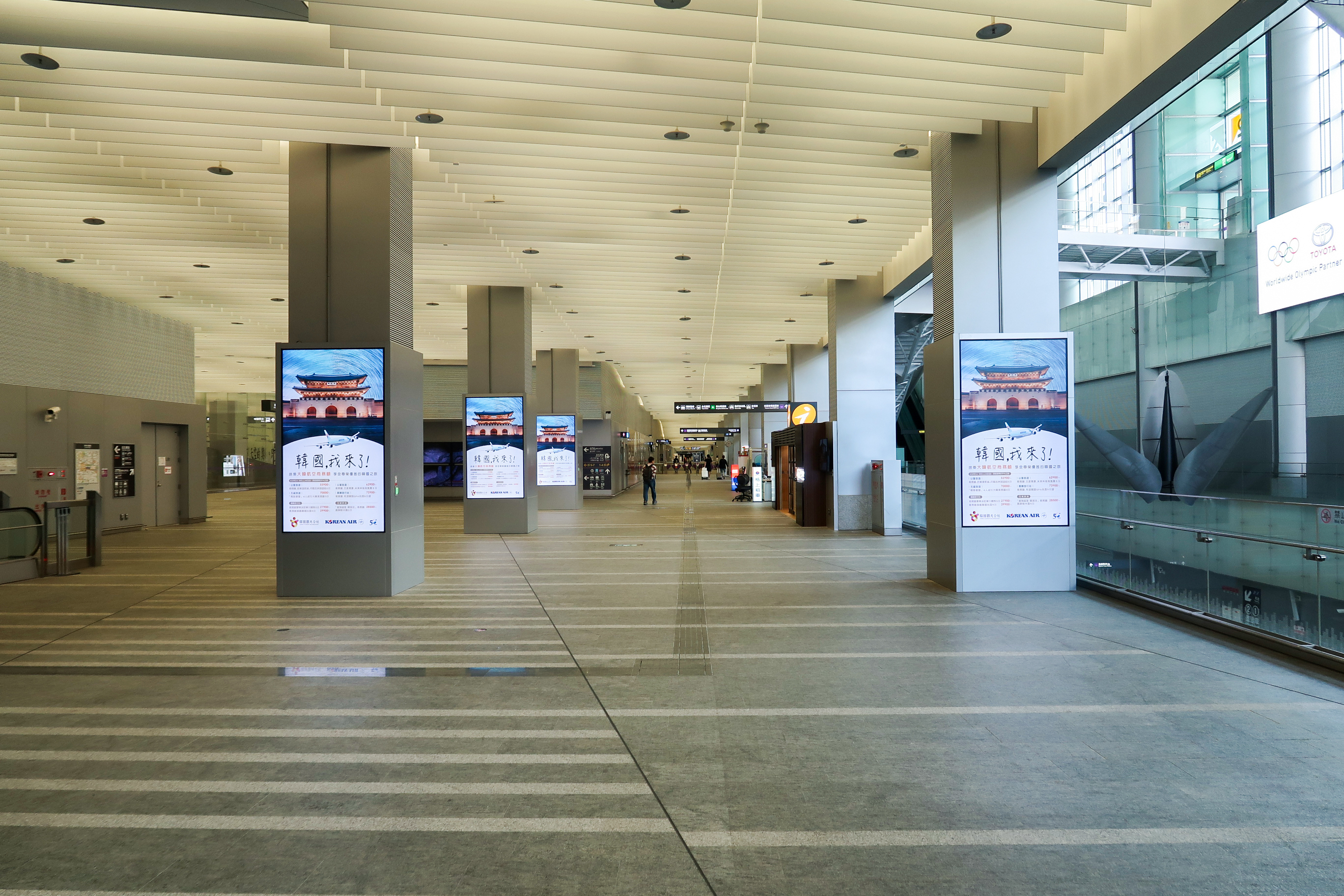 Taipei Main Station Taoyuan Metro Concourse access